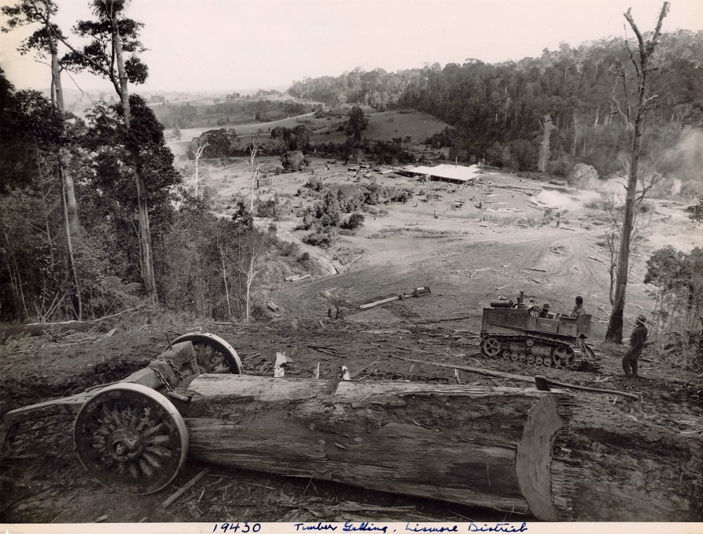 Timber-getting at Lismore Dated: No date Digital ID: 12932_a012_a012X2451000004 Rights: We'd love to hear from you if you use our photos. Many other photos in our collection are available to view and browse on our website using Photo Investigator.